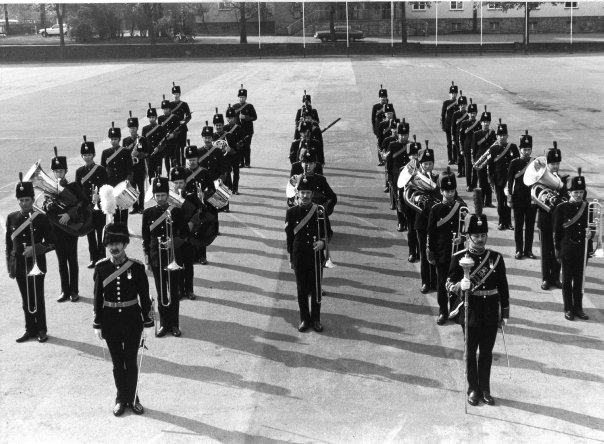 41 members of the Band on parade, under the command of its Director of Music, Captain B. E. Hicks R.A.